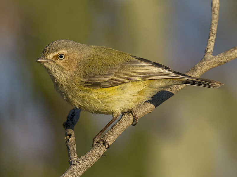 Strangways Vic.